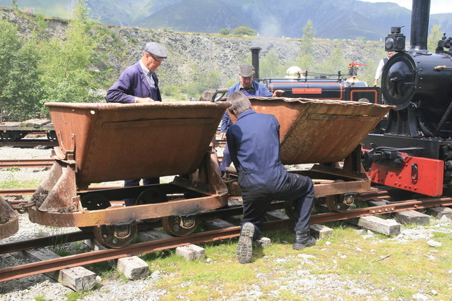 Threlkeld quarry - off the rails. During the steam gala day a mineral wagon is put back on the rails after becoming derailed on this lightly laid temporary track. The locomotive is Marchlyn, an 0-6-0 built by Avonside of Bristol in 1933 as No. 2067. After many years on static display in the USA it was returned to the UK in 2011 and is now in a much better environment. The engine is normally resident at Statfold Barn Railway. It was one of six visiting engines for this annual steam gala. Beyond is Hugh Napier. This is a 'quarry Hunslet' visiting from the Ffestiniog Railway. This is Hunslet Engine Company works No. 855, built 1904 and is an 0-4-0ST.